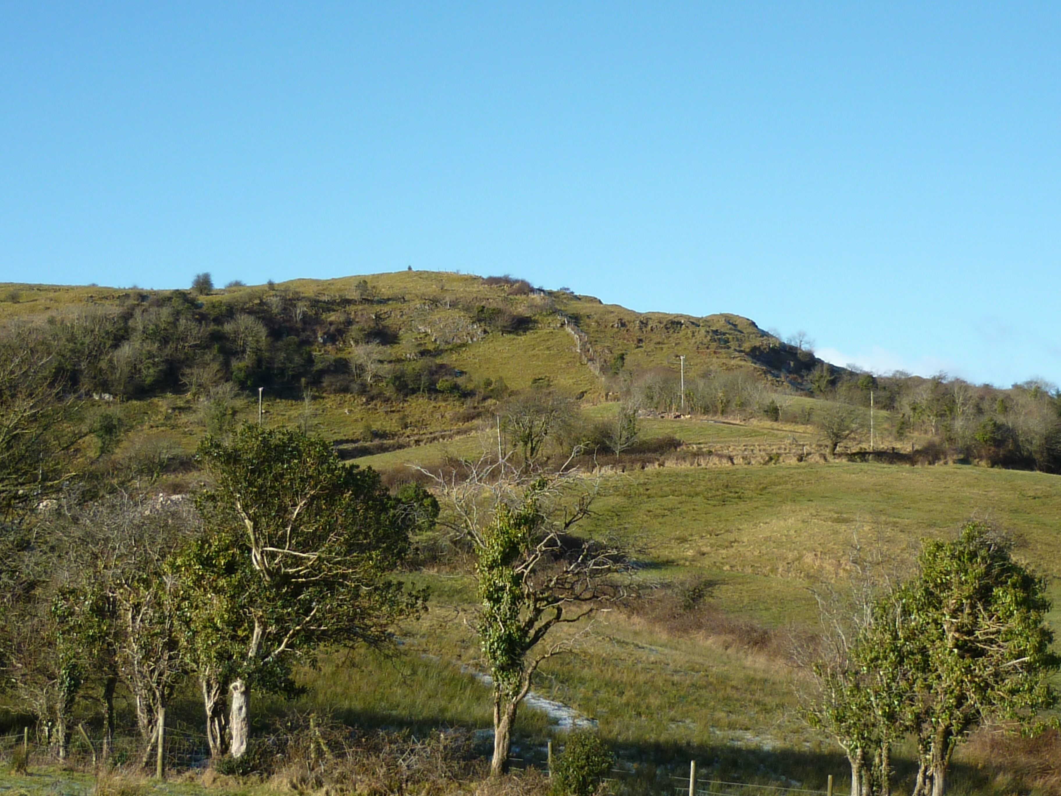 Looking up at the townland of Agharahan from Oubarraghan in Boho